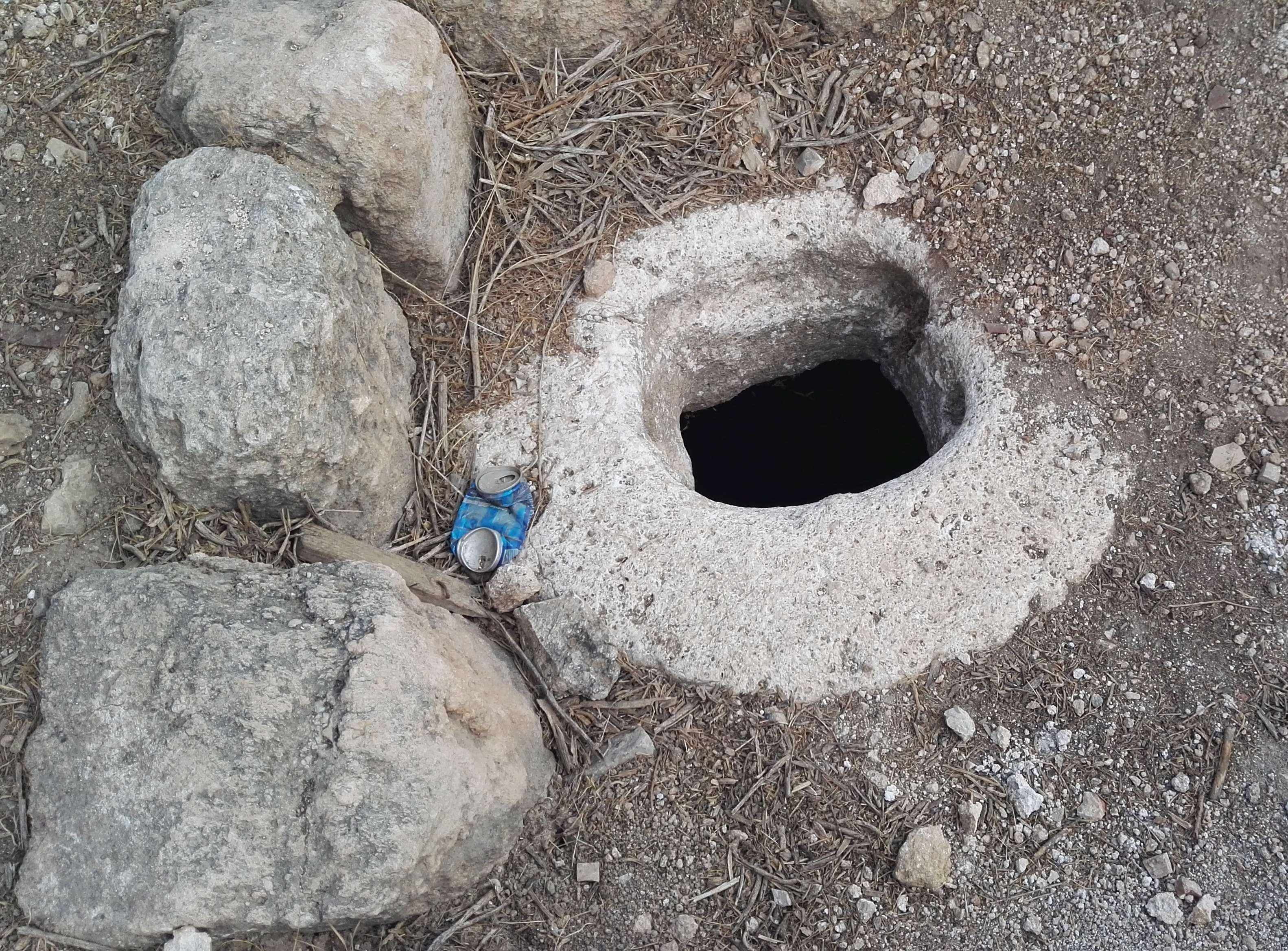 Deir Daqla archaeological site in Samaria.